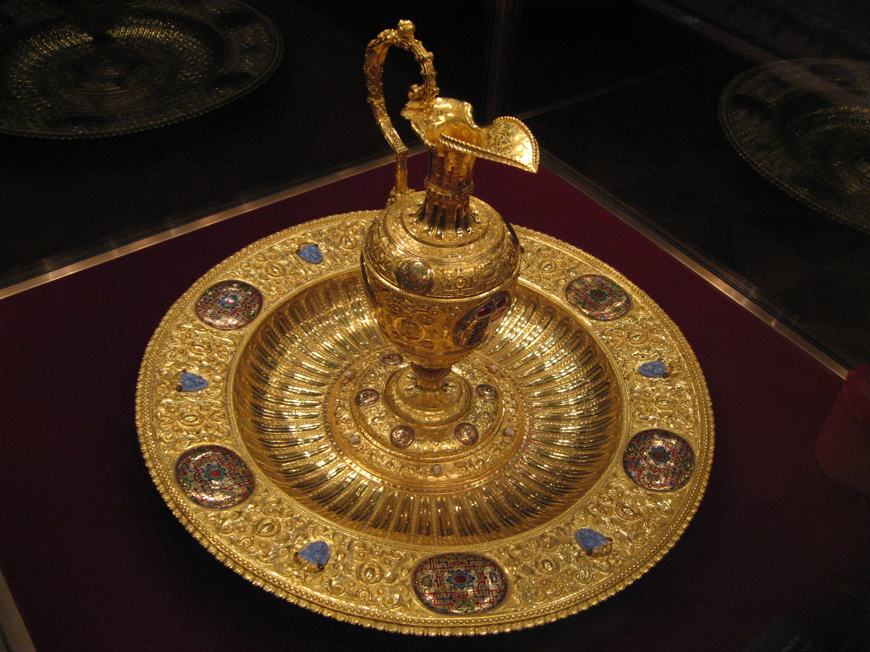 Baptismal Ewer and Basin Spanish master, 1571 Gold, partially enamelled Dated 1571 on handle Ewer: H 34.5 cm Basin: Diam. 61.5 cm SK Inv. No. XIV 5, 6